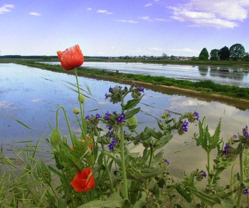 Rice fields of Piemonte between Novara and Vercelli.